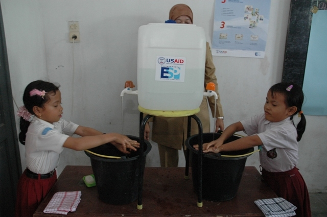 School children in Medan, Indonesia learning to wash their hands inside the class using a tap water jar.